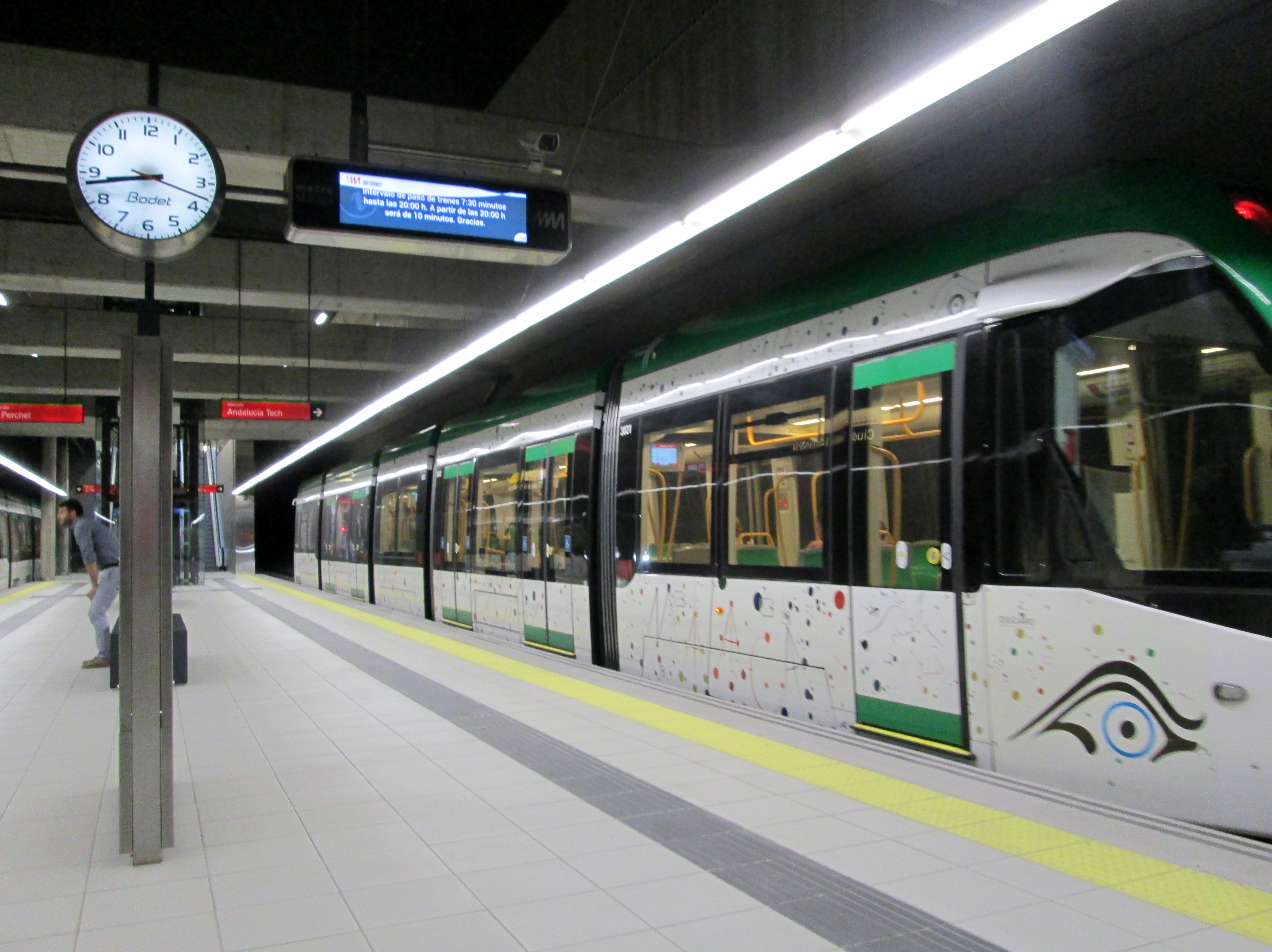 Estación de Ciudad de la Justicia